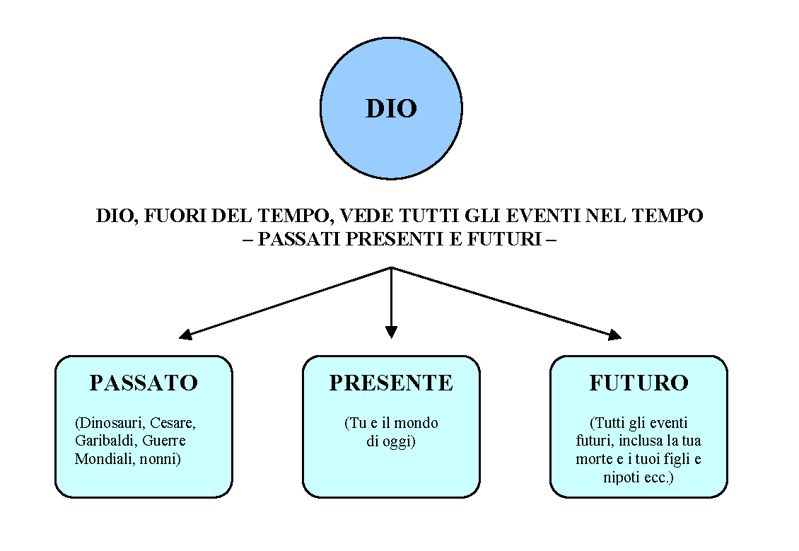 God's omniscience represented in a simple diagram.